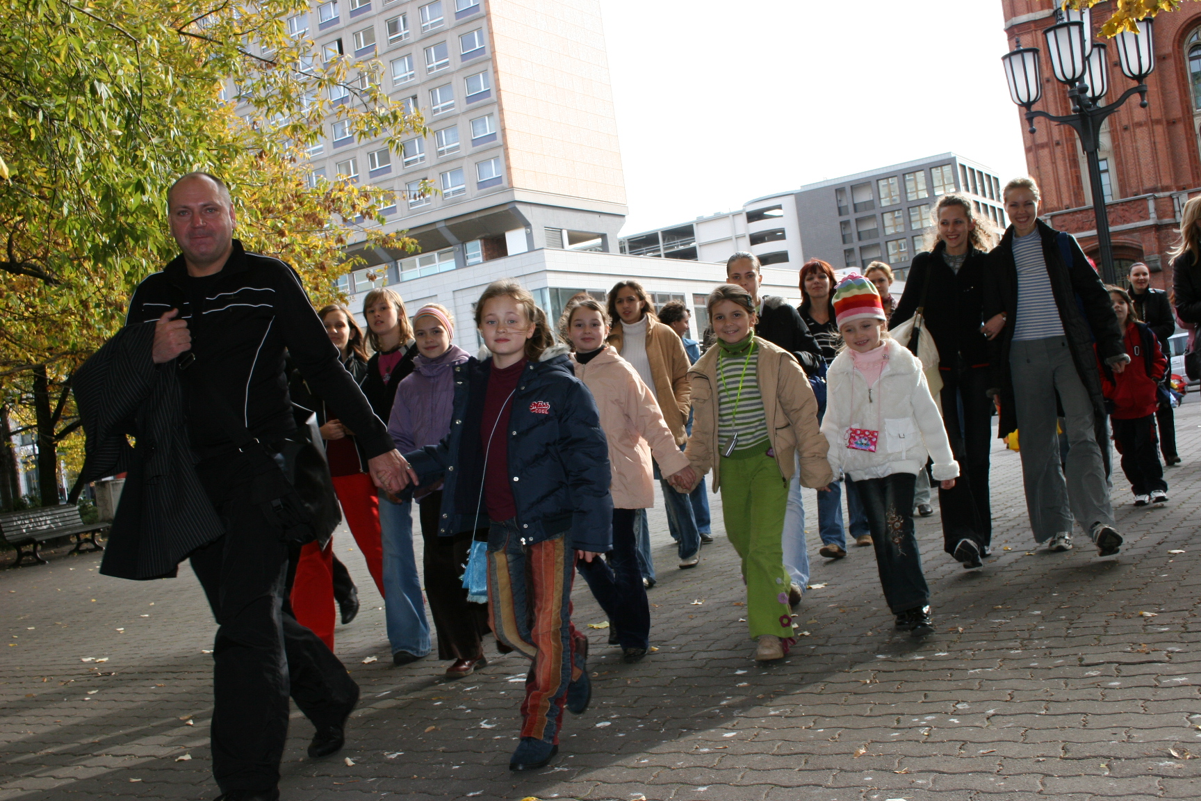 Sasha Varlamov and children in Berlin during Mill of fashion. Berlin (Germany), 2004 AD